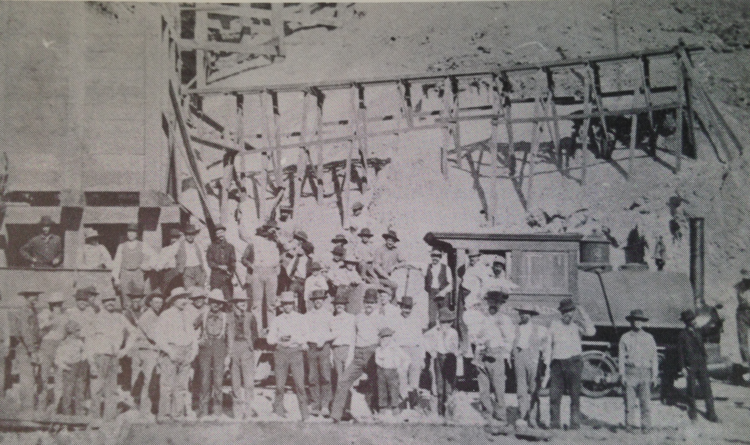 Miner and workmen crews at the Silver King Mine — in the Calico mining district, Mojave Desert, southern California. Alongside Calico R.R. No. 2 'Sanger' − of the Waterloo Mining Railroad.